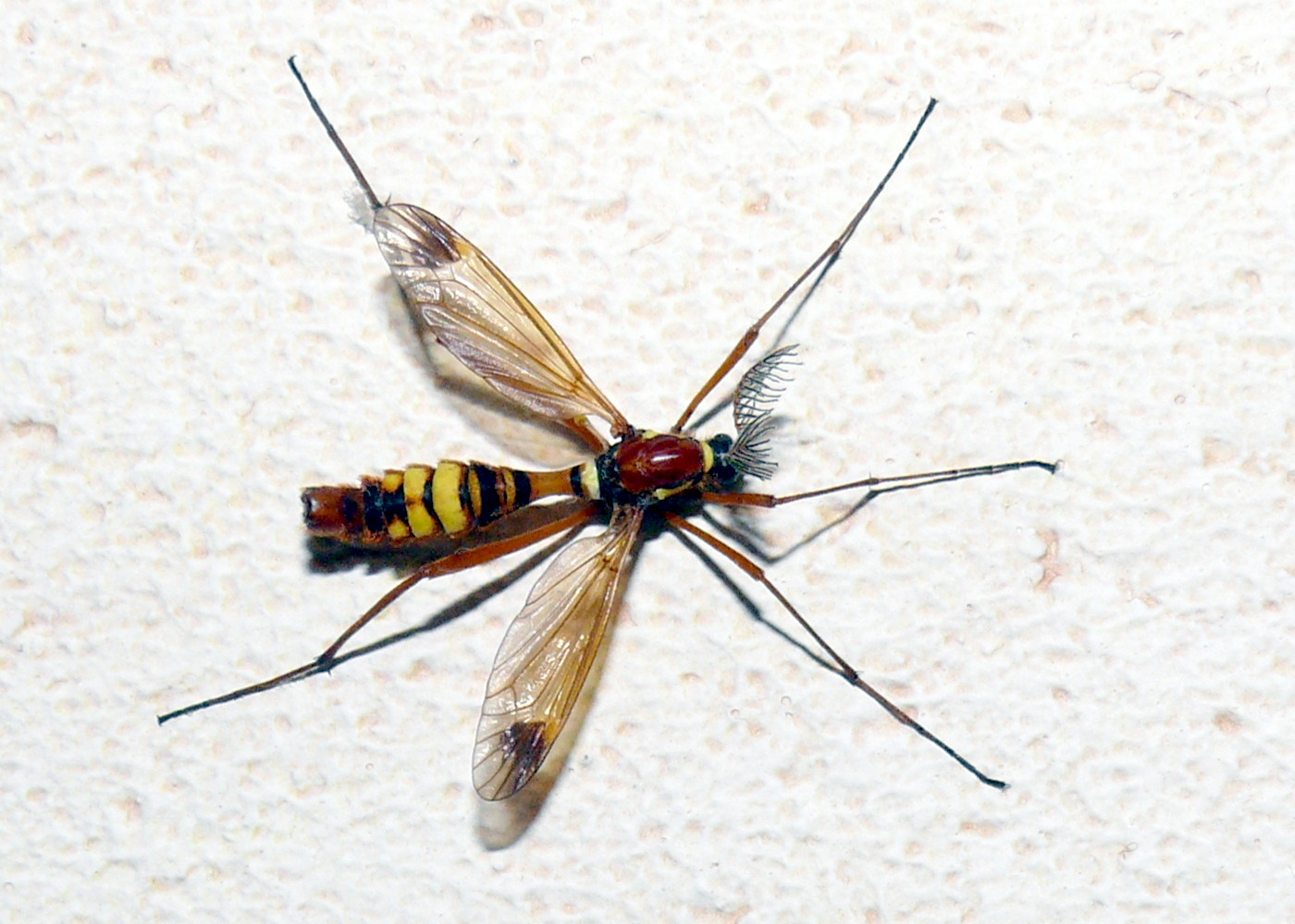 Ctenophora ornata or C. festiva, male. Added: is C. ornata. C. festiva has other legs and the narrowest abdominal segment's pattern is different in C. festiva. See Oosterbroek et al. (2006), Entomologische Berichten 66 (5): 138-149.